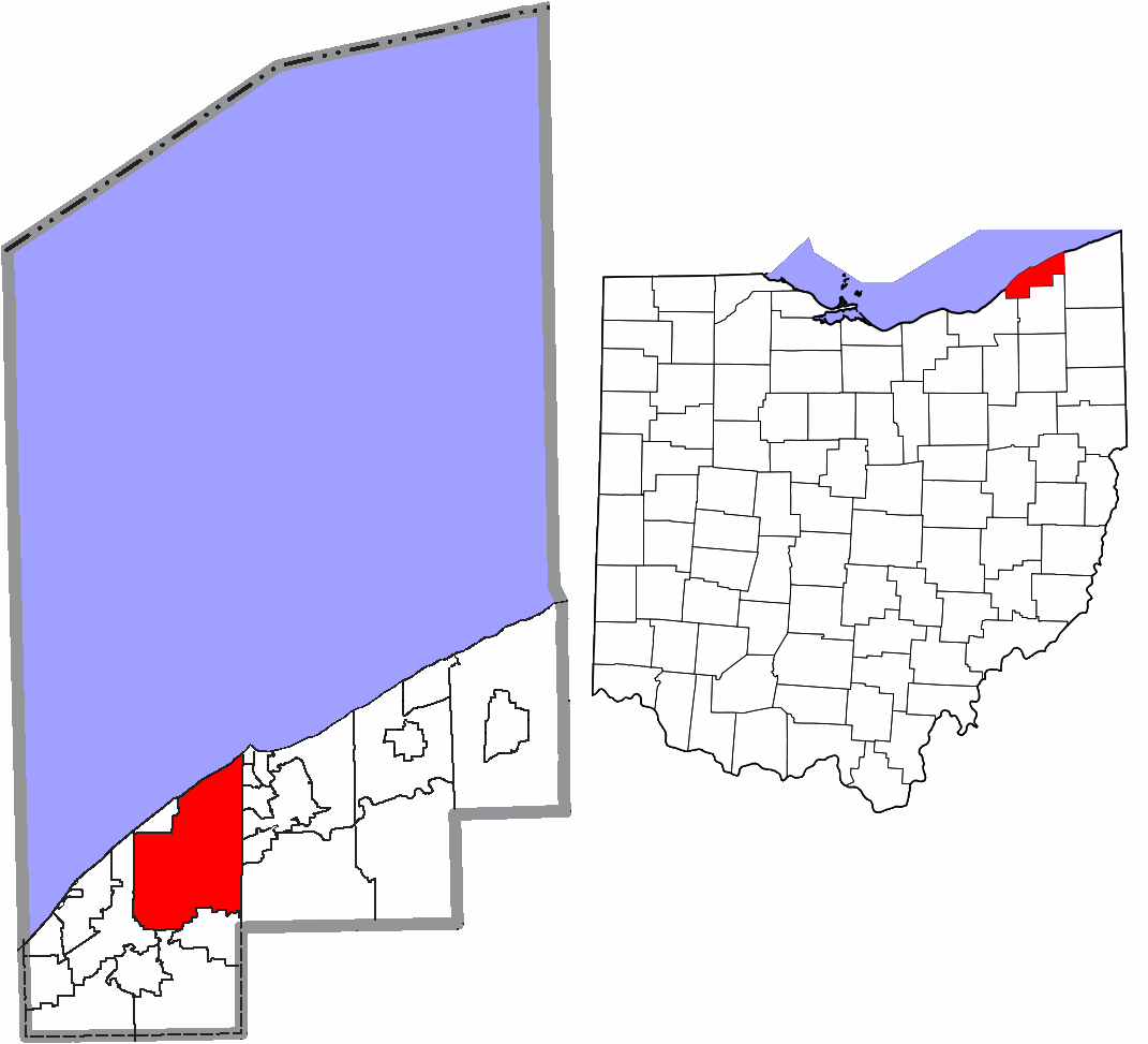 Map highlighting City of Mentor, Lake County, Ohio, United States.